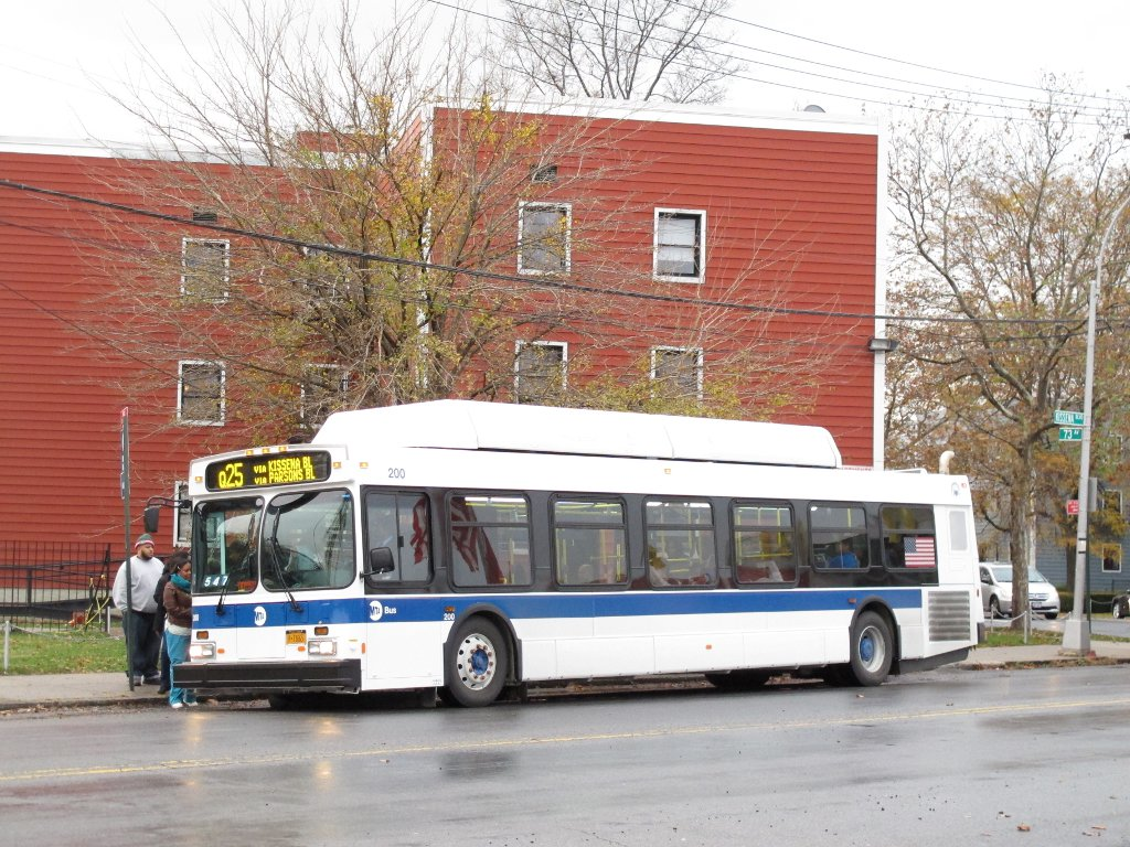 MTA Bus Company New Flyer C40LF #200 picks up customers on the Q25 Limited, due south to Jamaica.